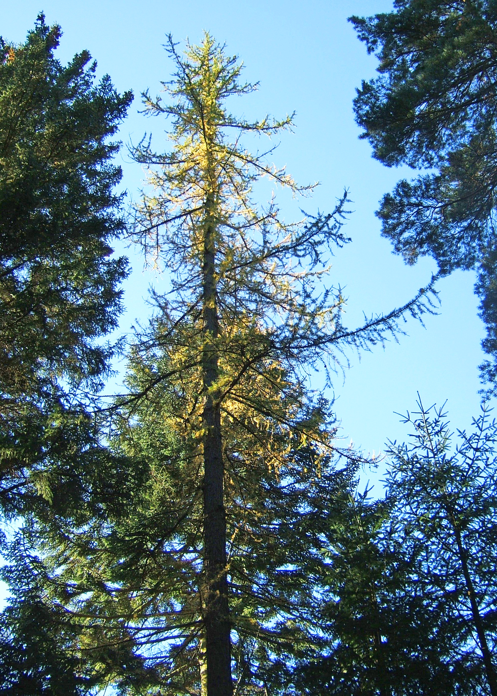 Larix occidentalis, cultivated, Kyloe Woods, Northumberland, UK. At 33 m tall, the tallest known in the UK.